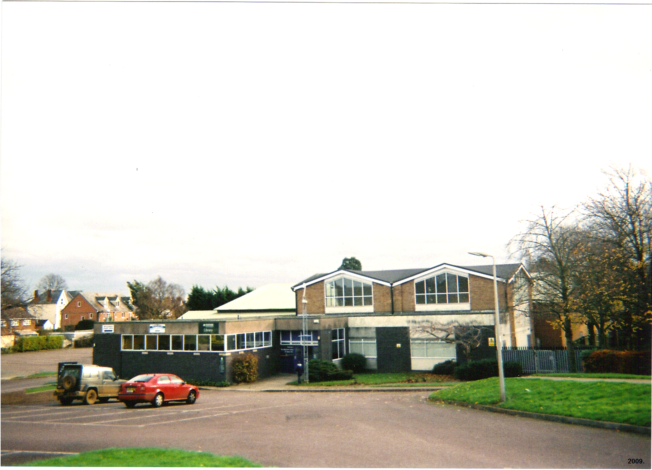 I took this picture of Neithrop Library in Neithrop, Banbury town my self. I here by release it in to the public domain.